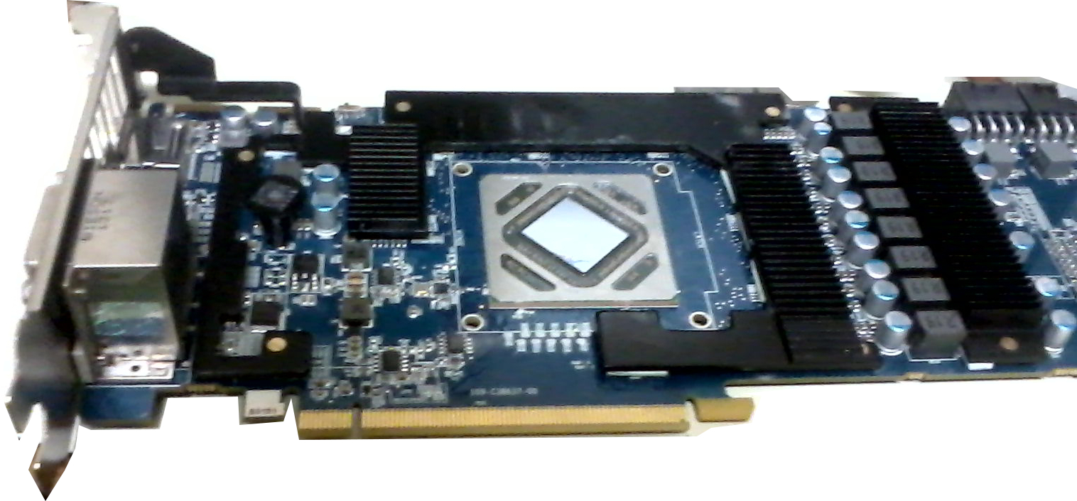 A Radeon 7970 with the cooler removed, showing the major components of the card.